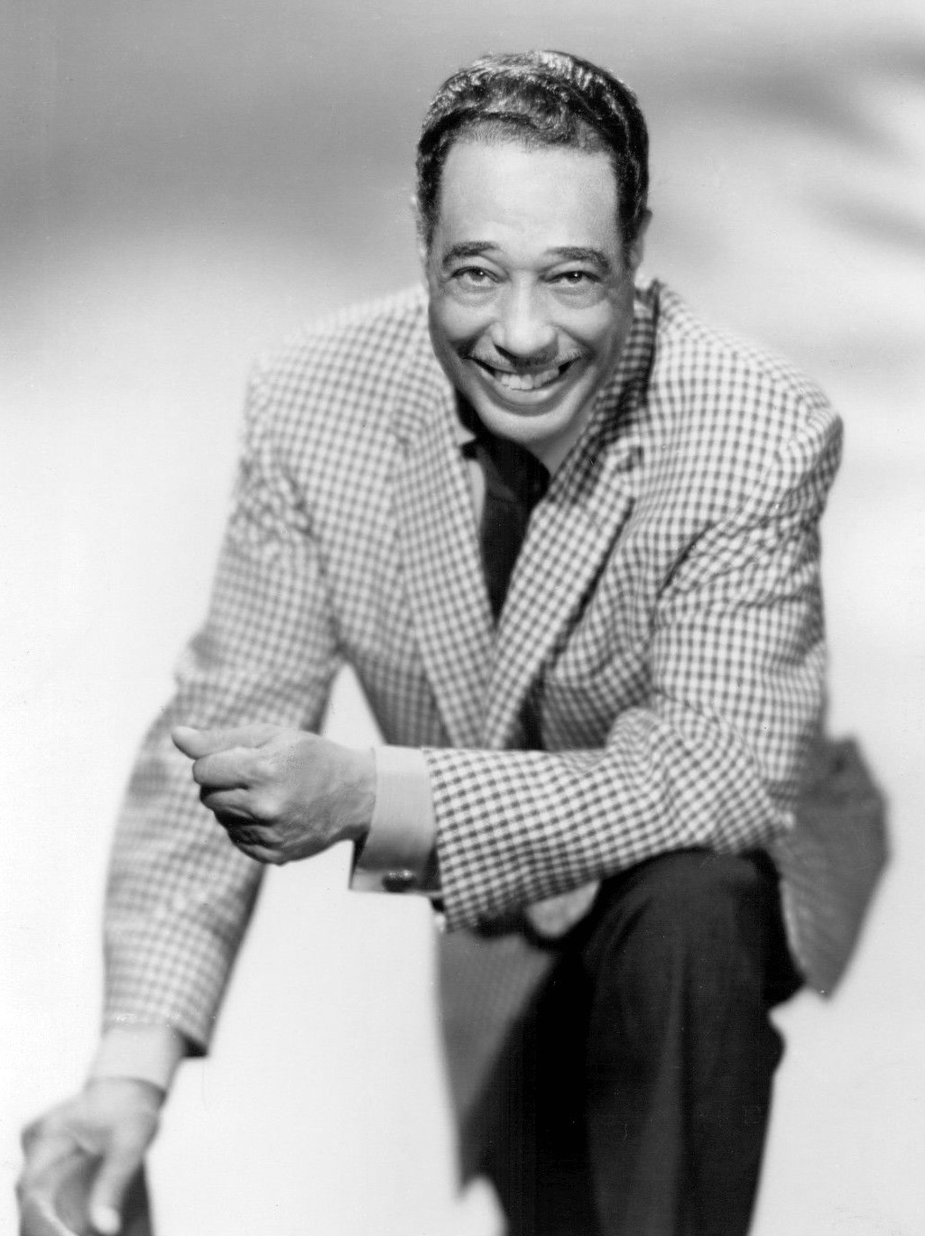 Photo of Duke Ellington.